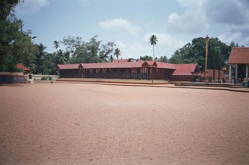 cherthala karthyayani temple